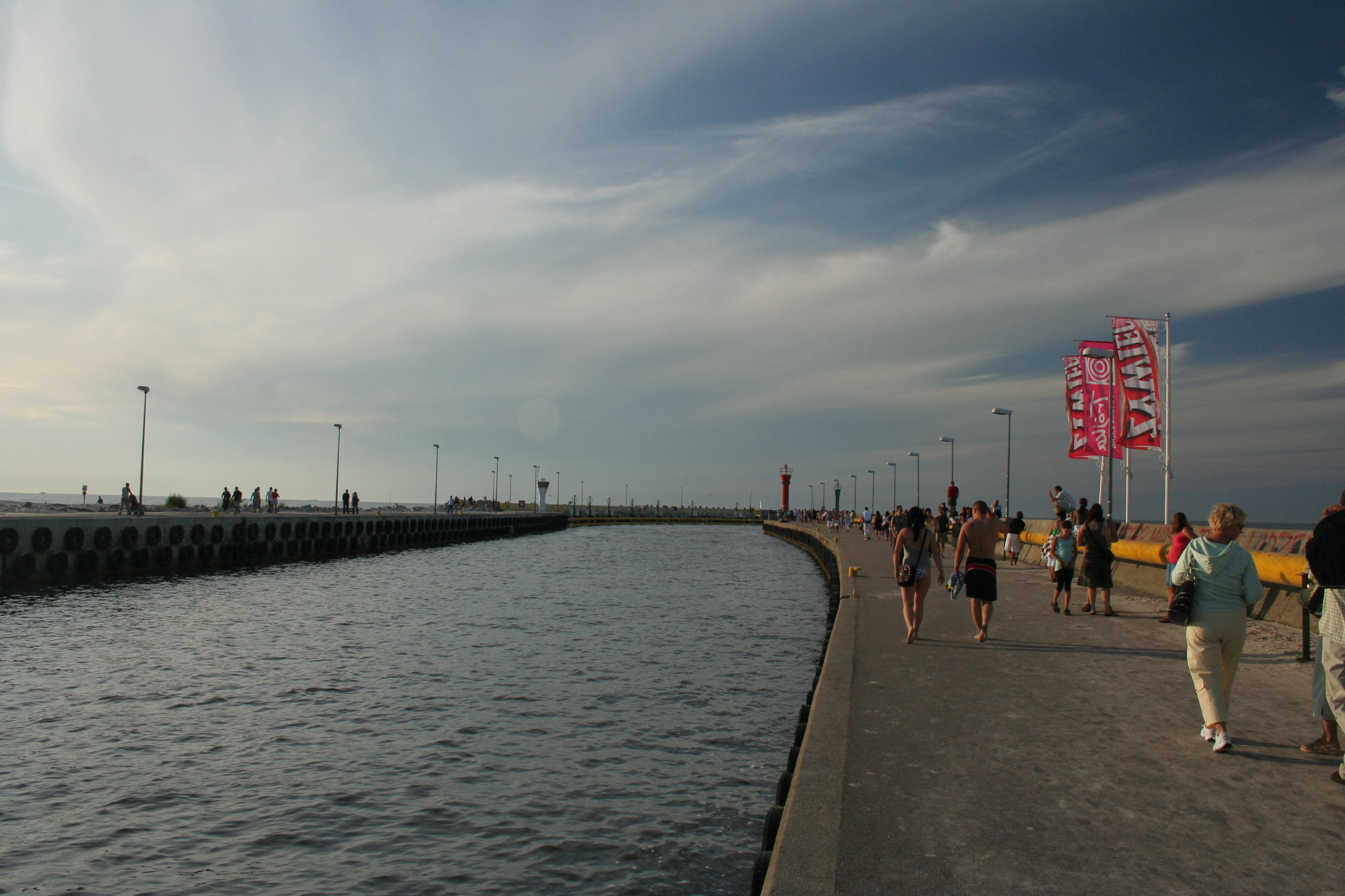 Port of Łeba.